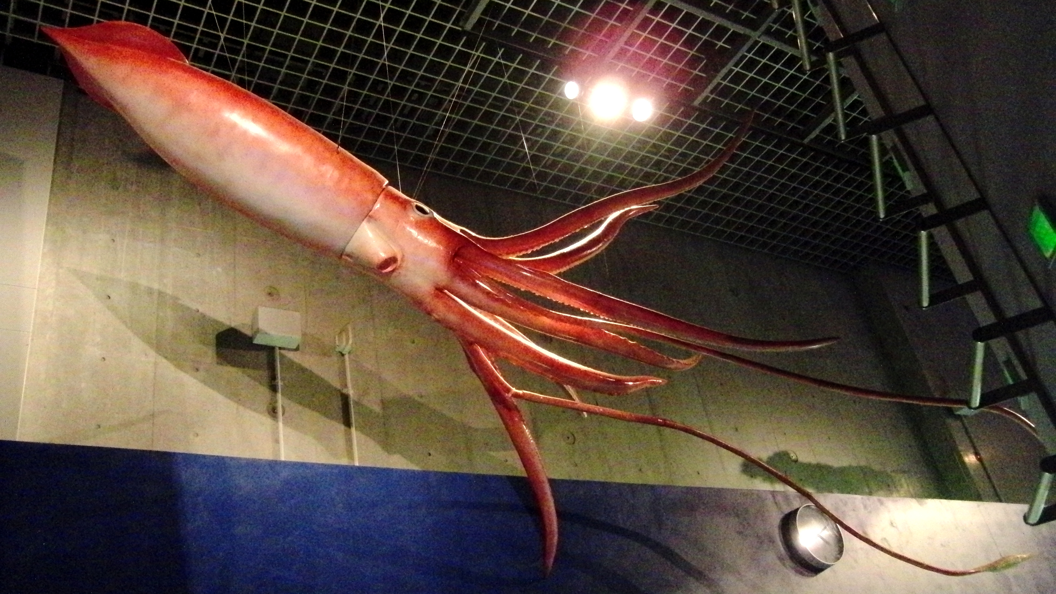 Actual size replica of Giant squid. Exhibit in the National Museum of Nature and Science, Tokyo, Japan.